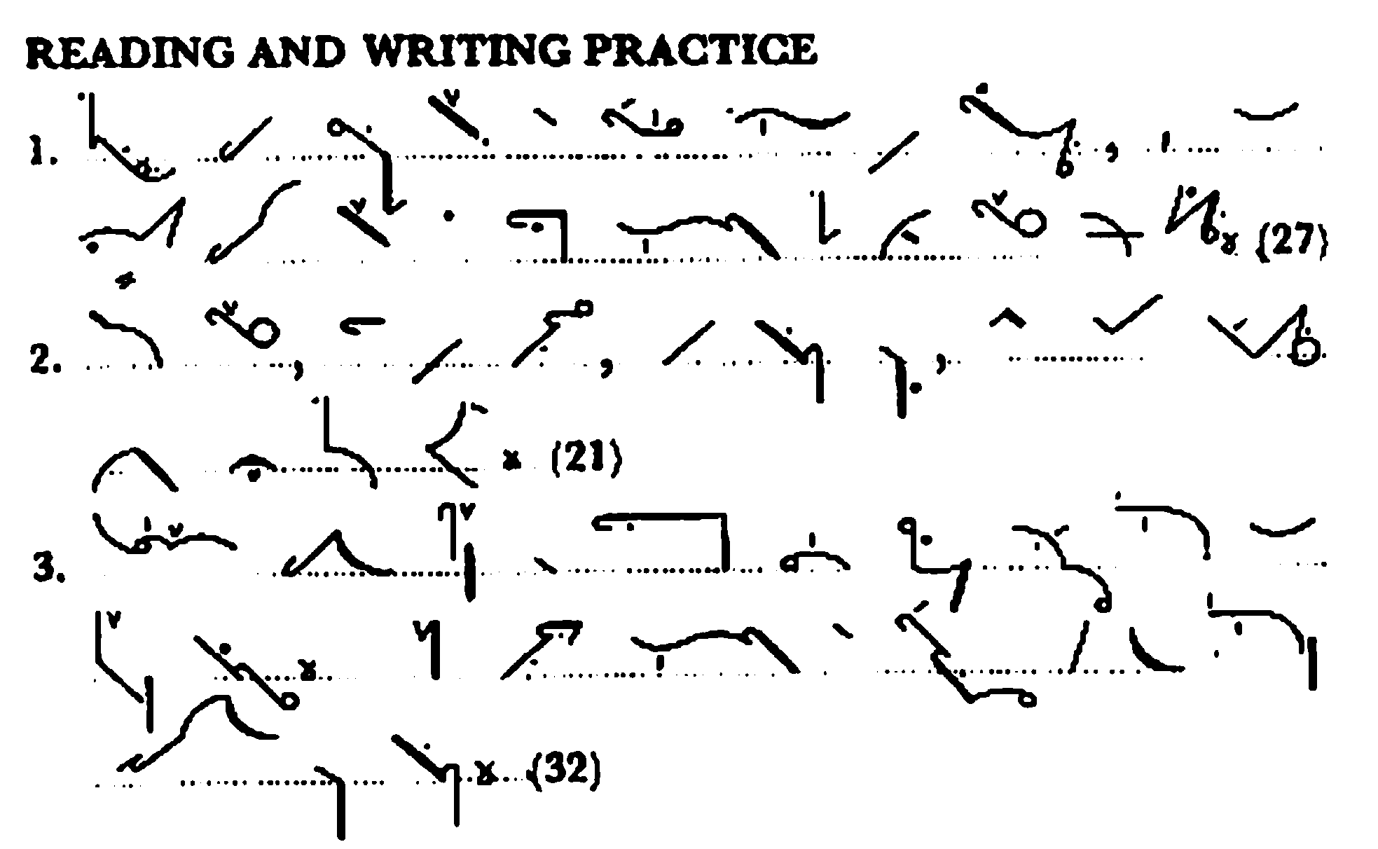 Example of Pitman 2000 shorthand - smaller